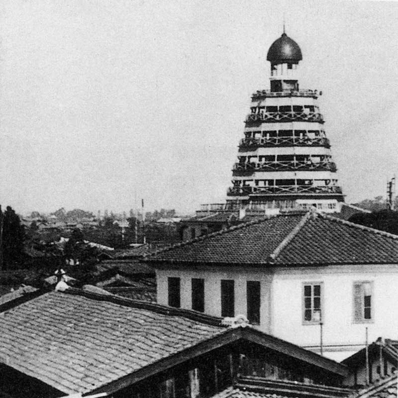 Ryounkaku aka "Kita-no-Kyuukai", Osaka, Japan, 1889-1904